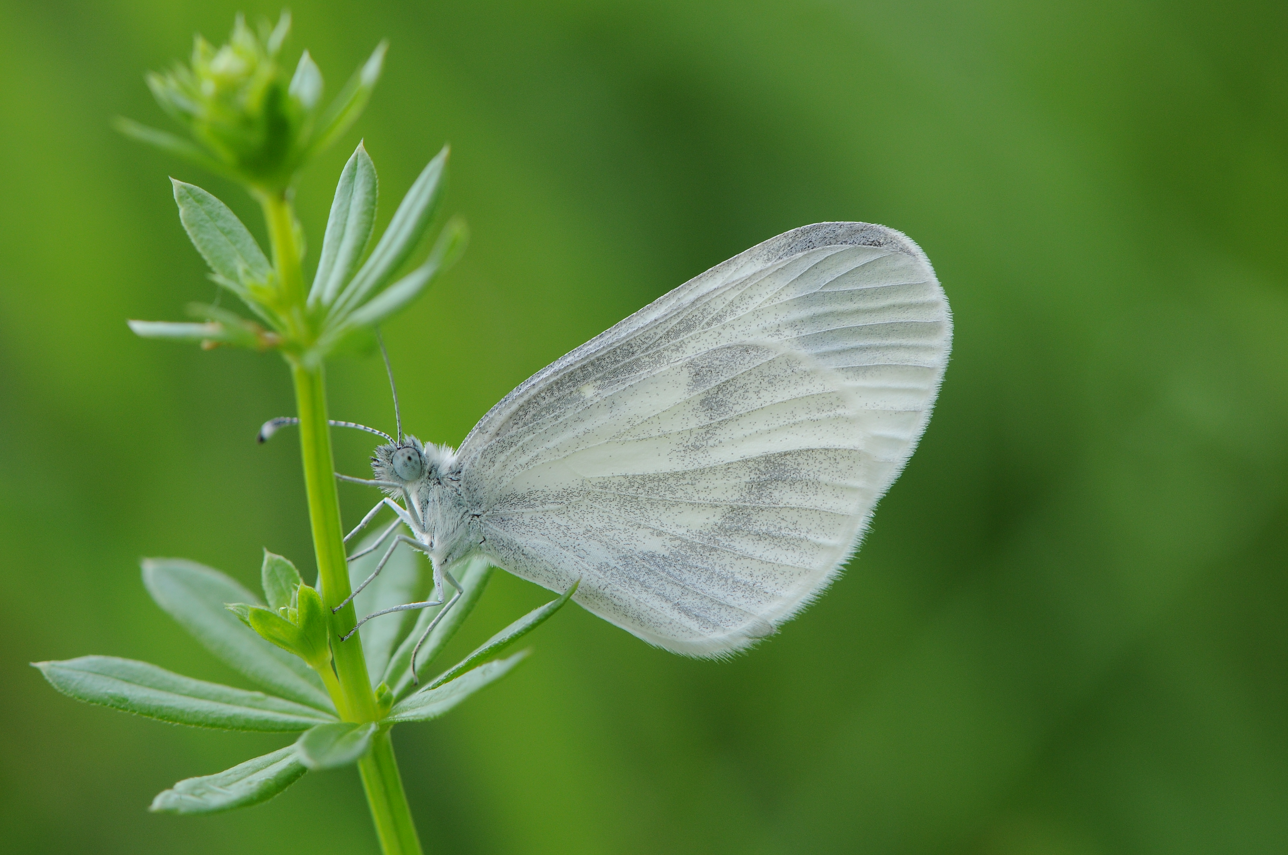 The Wood White is a butterfly of the Pieridae family. The plant is a Galium species. Photographed in Sennwald.